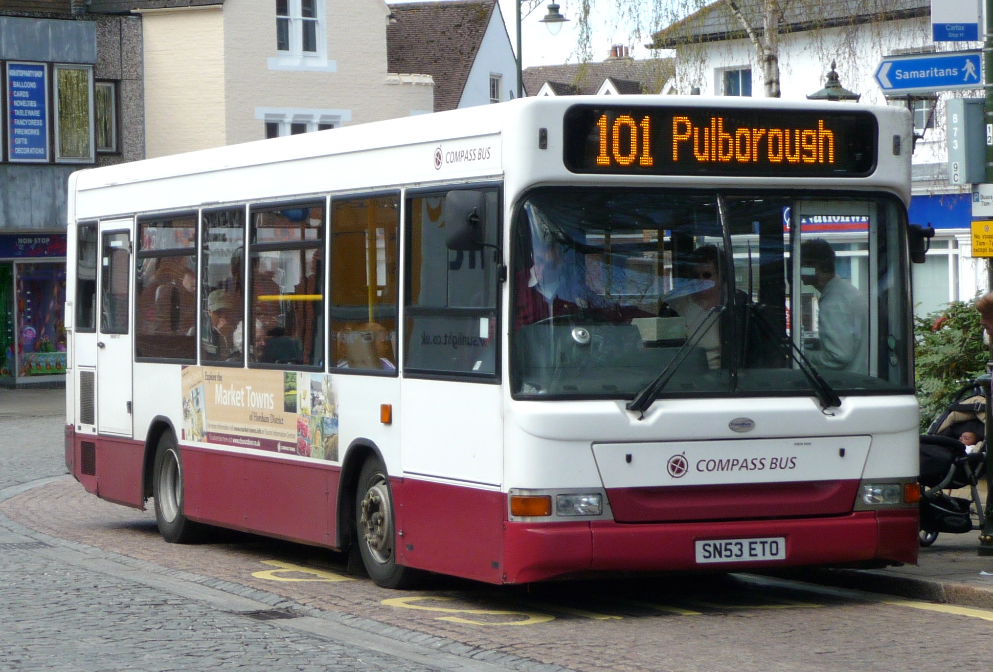 Compass Bus SN53 ETO, a Dennis Dart SLF/Plaxton Pointer 2 MPD, in Carfax, Horsham, on route 101.